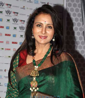 Poonam Dhillon at Global Sounds of Peace Concert